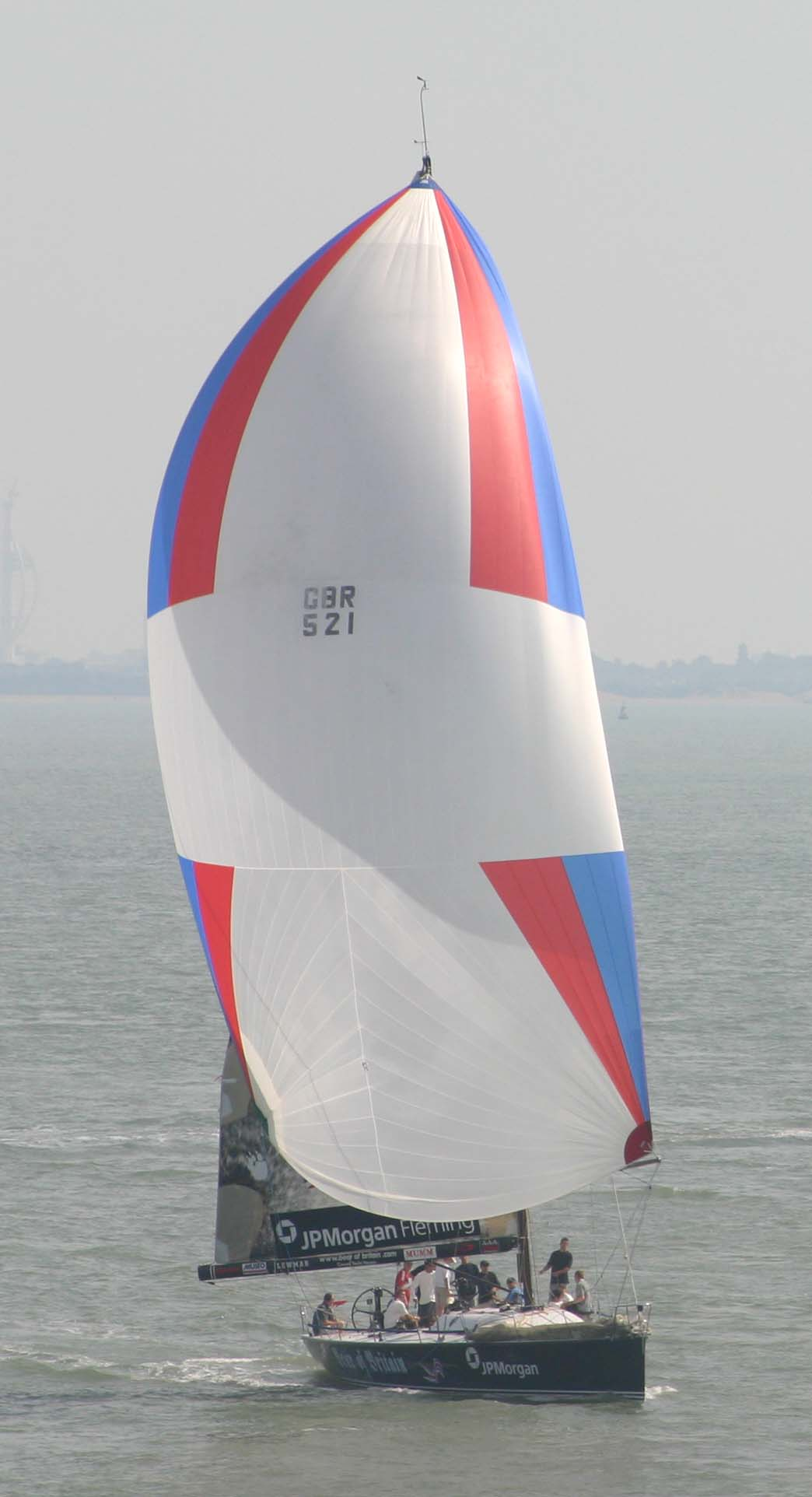 Bear of Britain with spinnaker up. Taken Sept 2004.